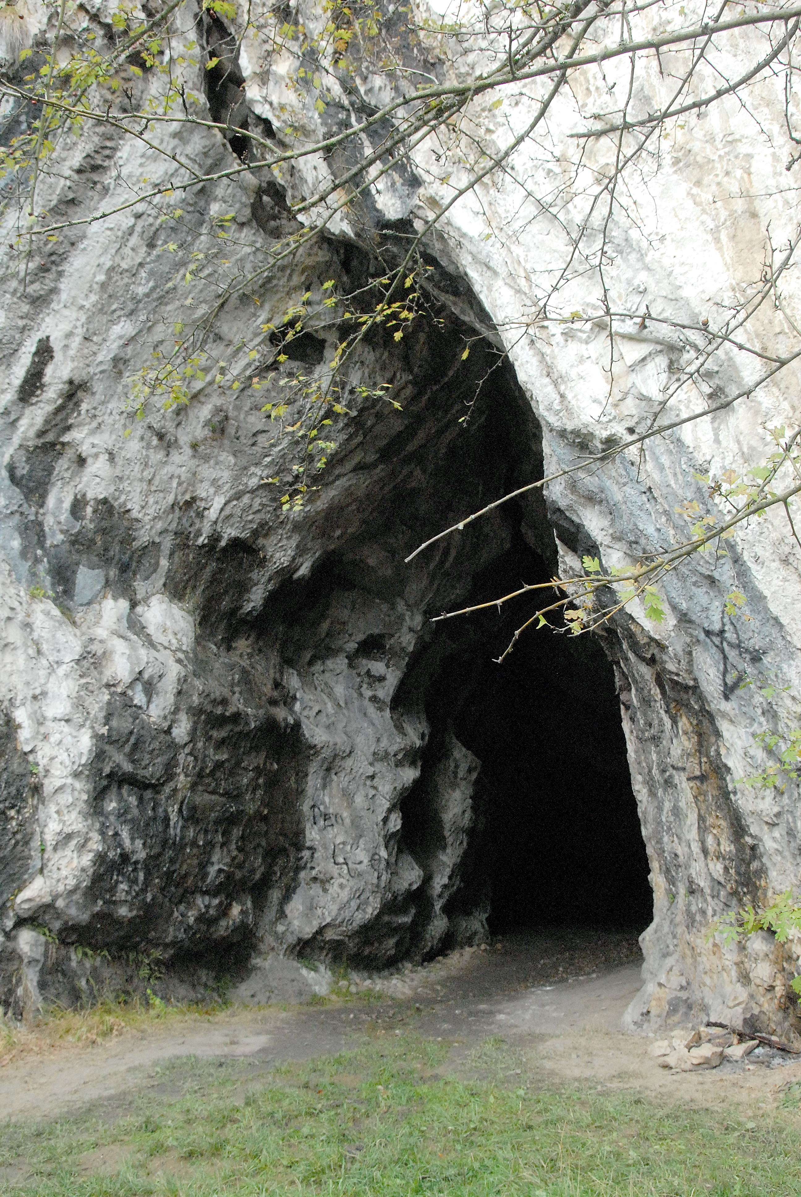 Cave entrance to the Eggerloch at the mountain Tscheltschnigkogel near “Warmbad” in Judendorf, municipality Villach, Carinthia, Austria, EU